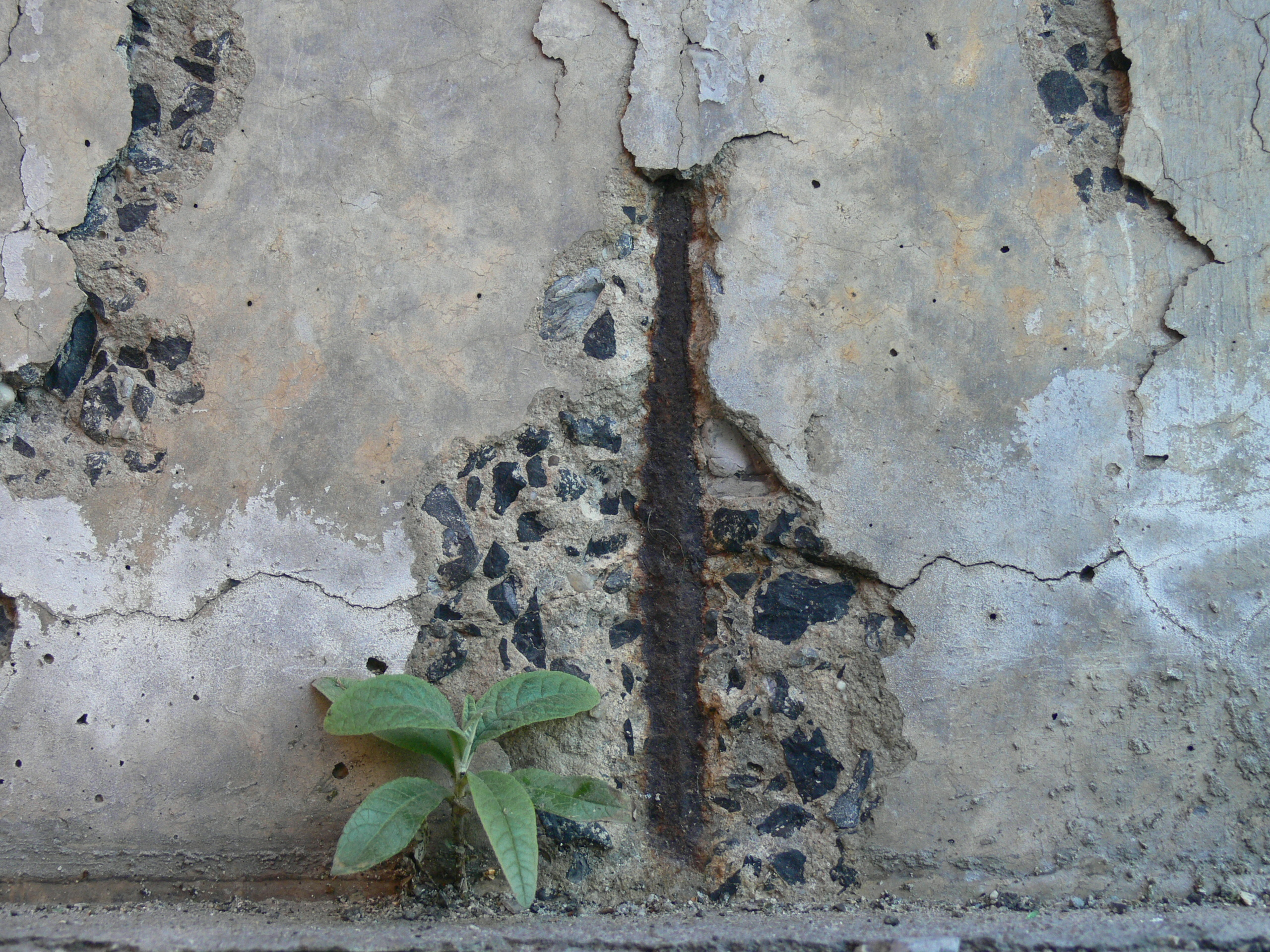 Deteriorated surface of a reinforced concrete wall, after twenty years. This discrepancy is due to improper positioning of iron in concrete. this wall is under subway of Lille, near Boulevard Louis XIV in Lille (north of France). The seedling is a young budleia (Buddleja davidii)). This plant is invasive and introduced, pioneering and typical of urban wastelands and new habitats.